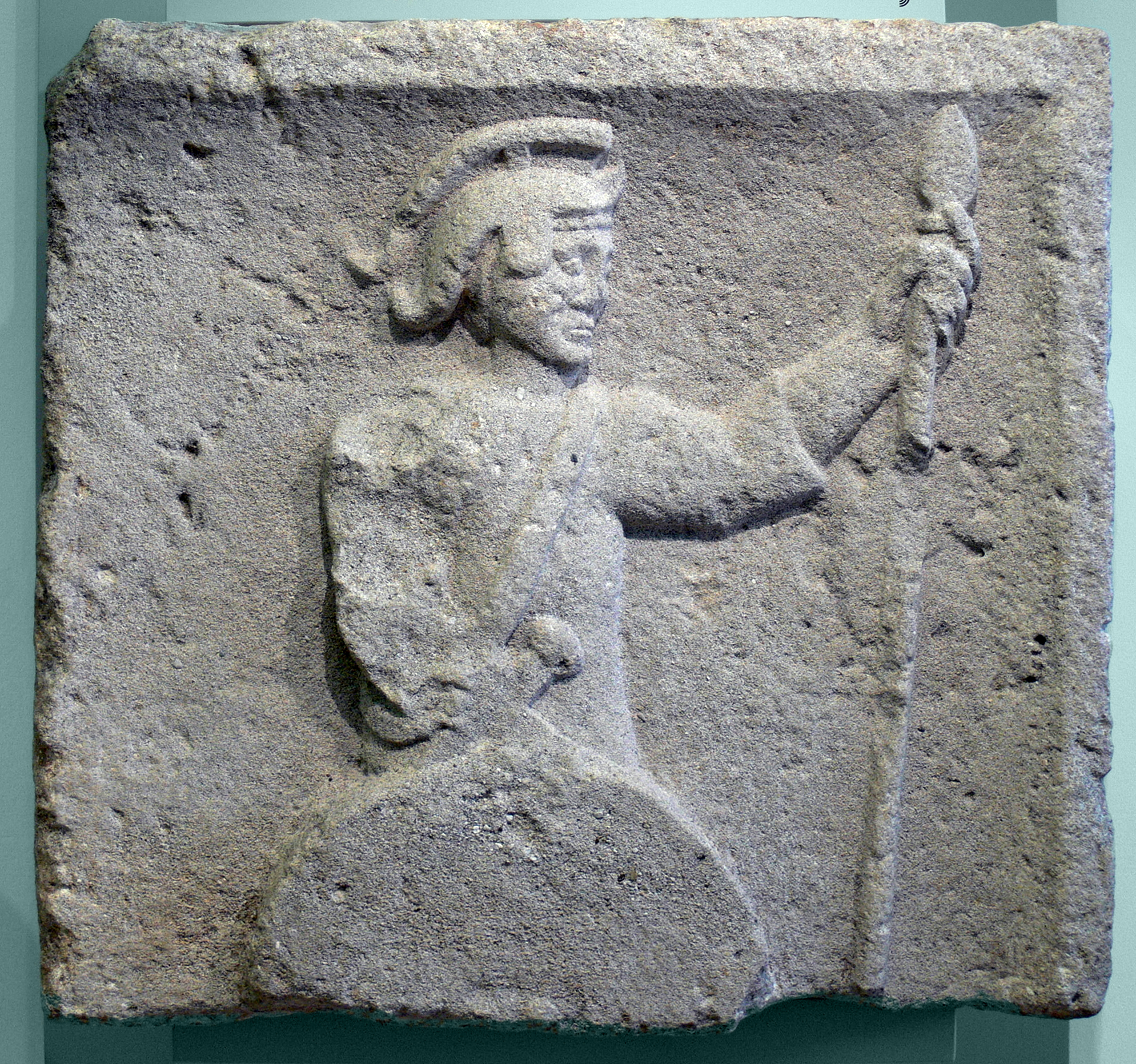 Castle museums in Linz ( Upper Austria ). Archeological collection: Relief of a Roman soldier from Linz, Roman period, 3th century AD.